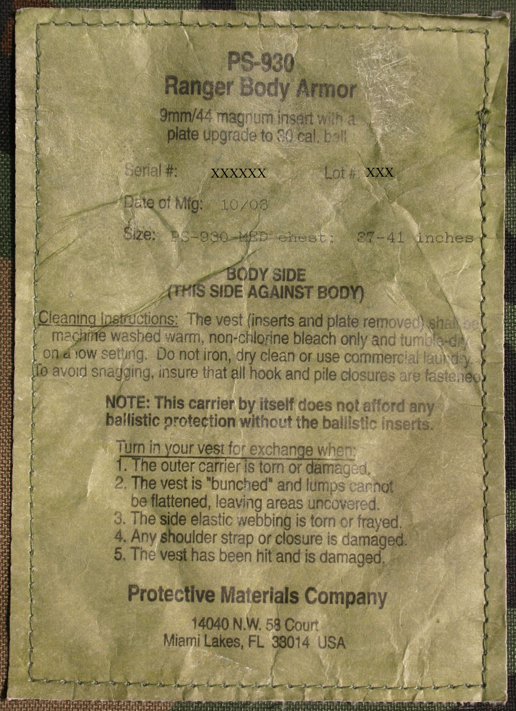 Detail of the label inside the Ranger Body Armor (RBA) model PS-930. From top to bottom : model, protection, serial numbers, manufacture date (October 2003), size (medium), wash instructions and finaly the manufacturer's informations.